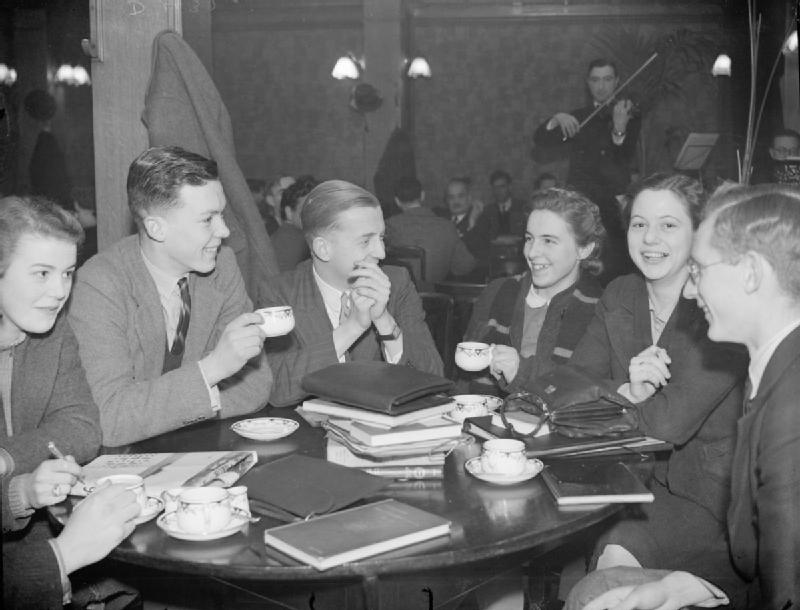 King's College London Students Evacuated To Bristol, England, 1940 James Macdonald Paterson (seen here holding a cup) enjoys a cup of tea or coffee with friends in a Bristol cafe. In the background, a violinist and other diners can be seen.